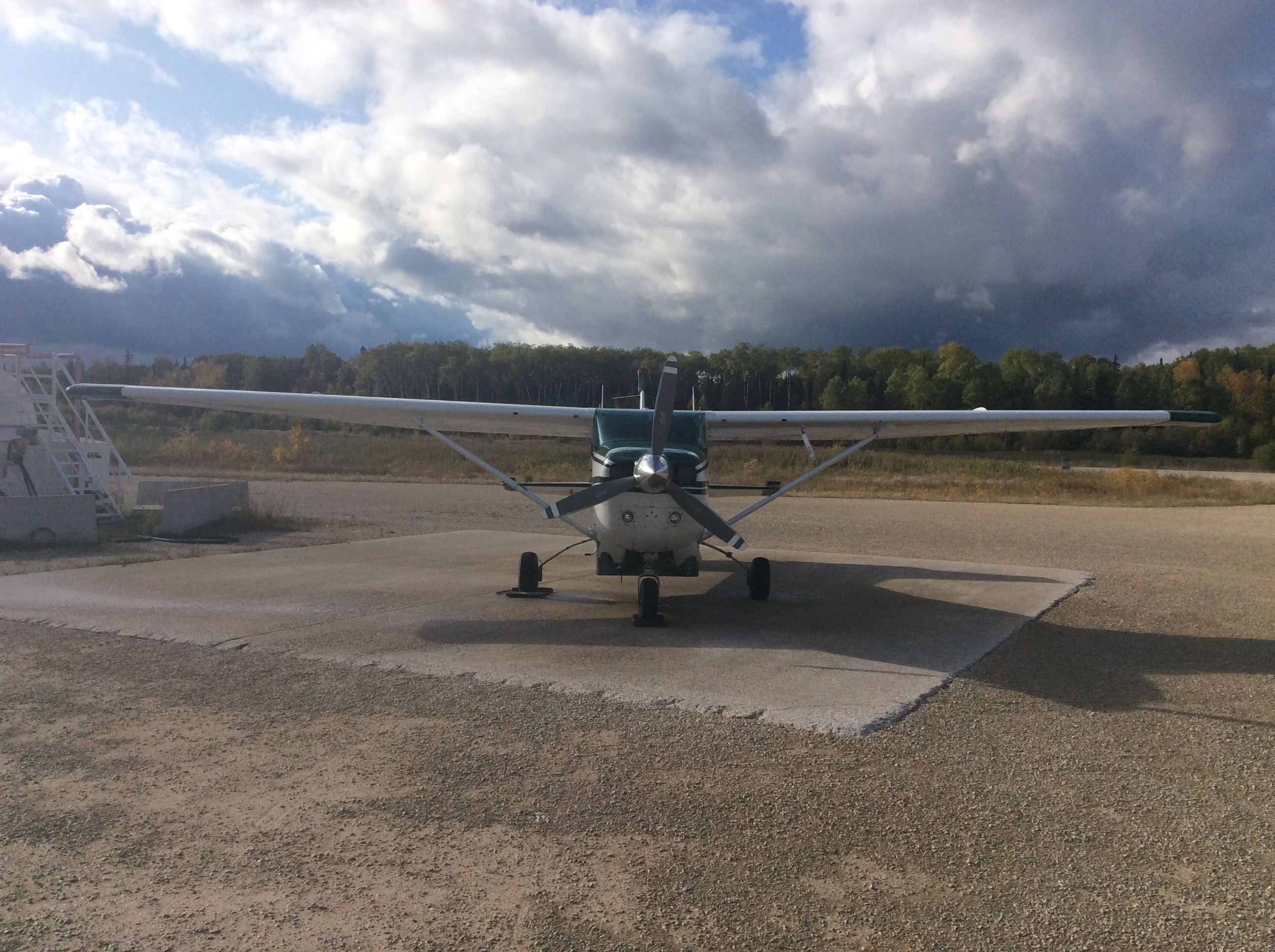 Lakeside Aviation Cessna 206 Charter Aircraft at the Pine Dock Airport parking ramp